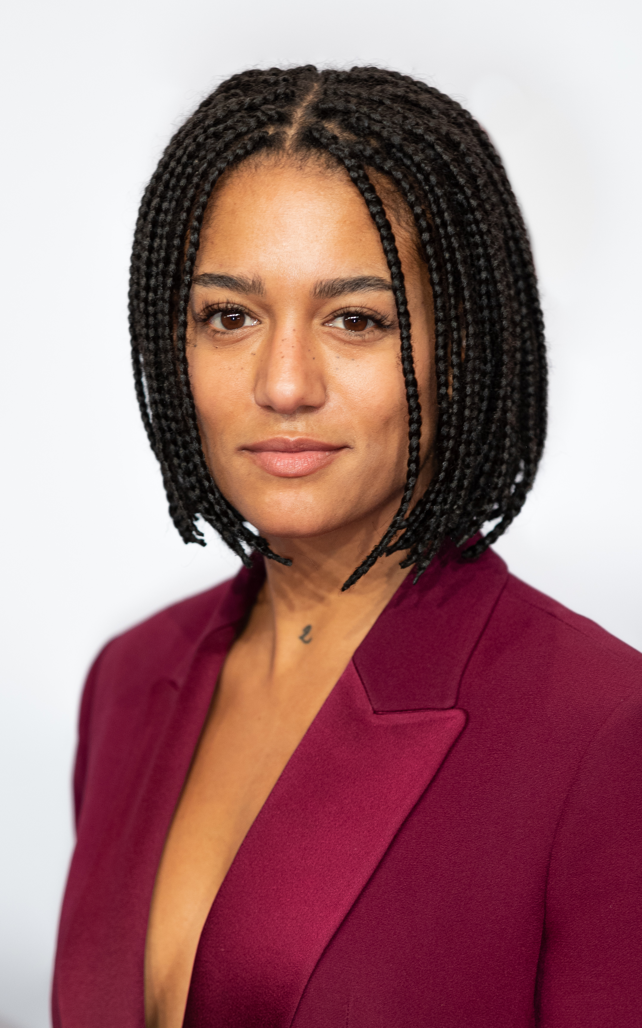 Larissa Sirah Herden at the party of the Medienboard Berlin Brandenburg, Berlinale 2020